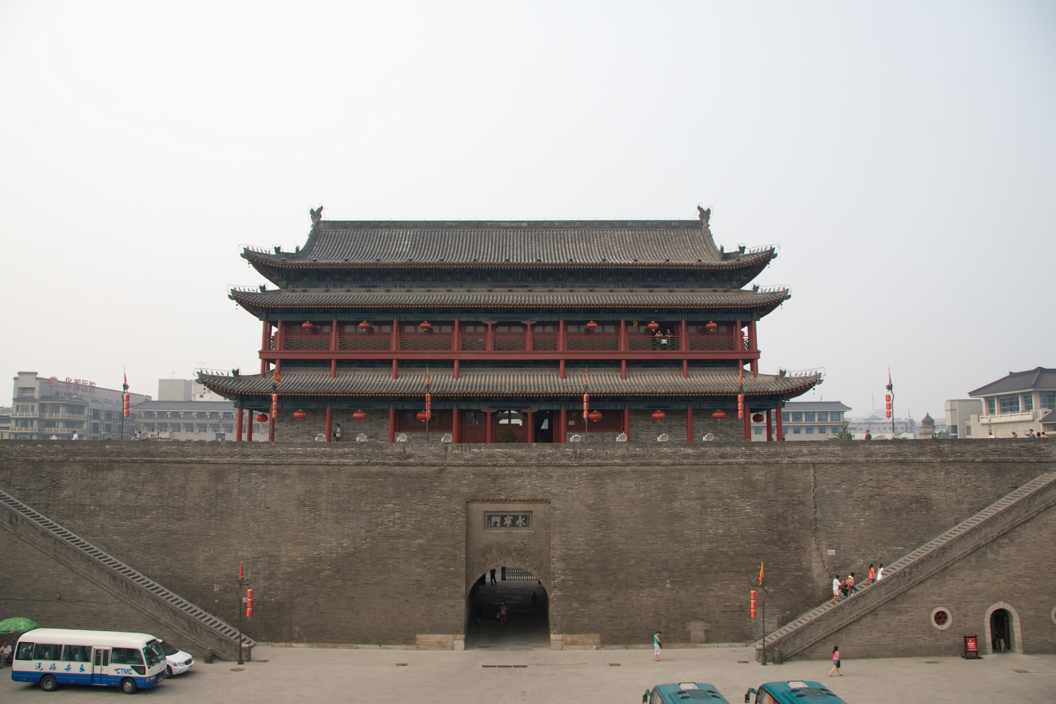 City Wall in Xi'an, China